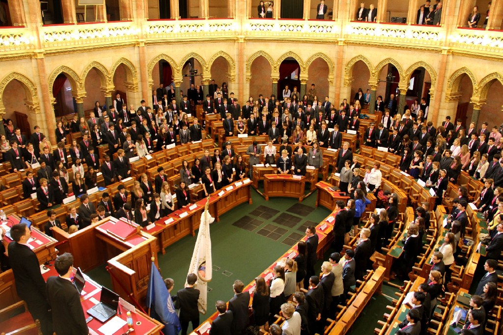 The opening ceremony of Budapest International Model United Nations 2012 in the Hungarian Parliament Building